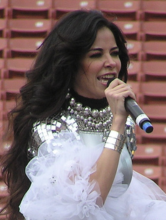 Mexican pop singer Gloria Trevi performing